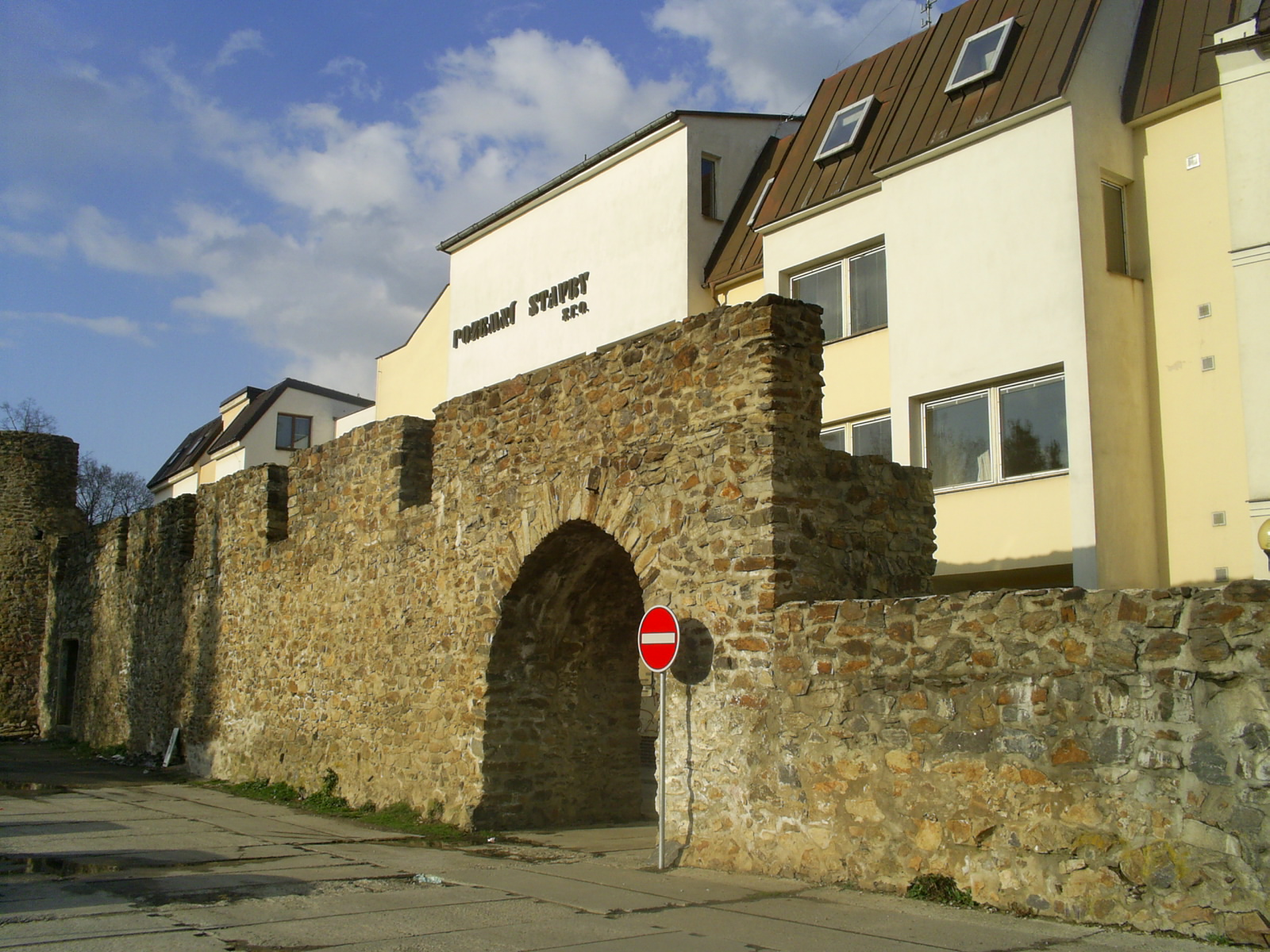 A part of the city's wall (Jihlava-Czech Republic).